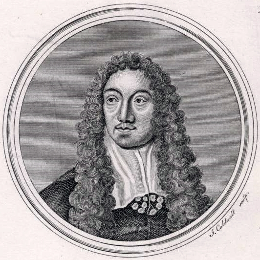 English composer Matthew Locke (ca. 1621-1677) by James Caldwall (1739-1822).